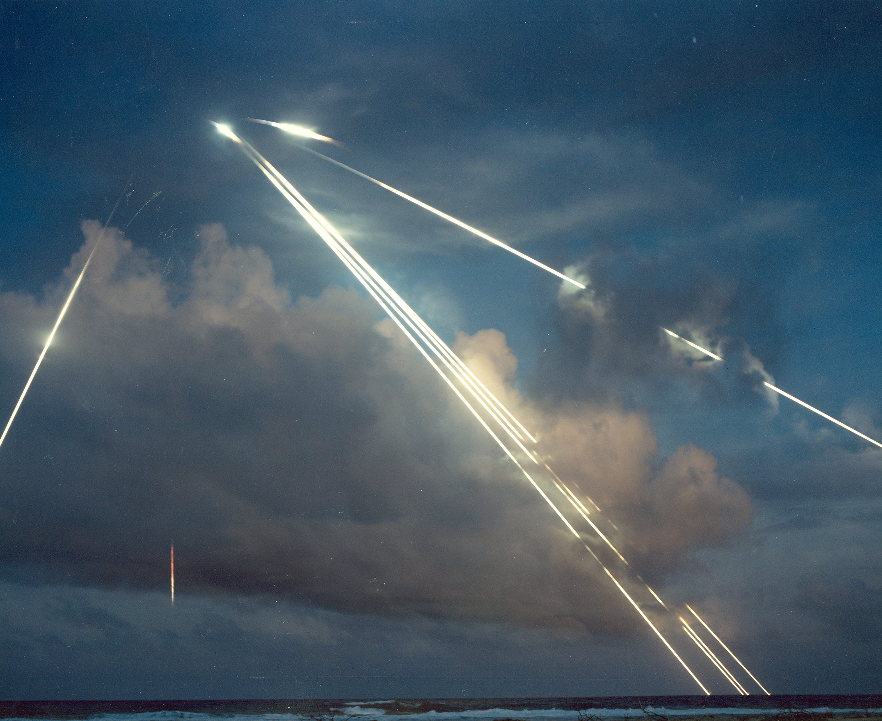 A series of ICBM reentry vehicles re-enter over the Kwajalein Test Site,.